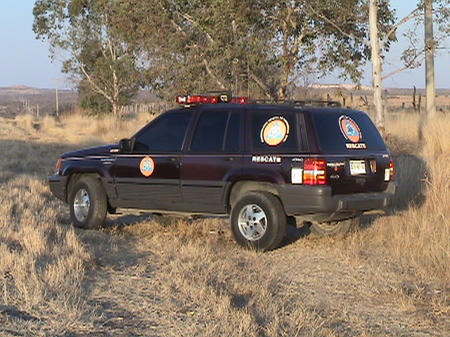 Urban Rescue Unit for the Civil Protection Agency in Mexico